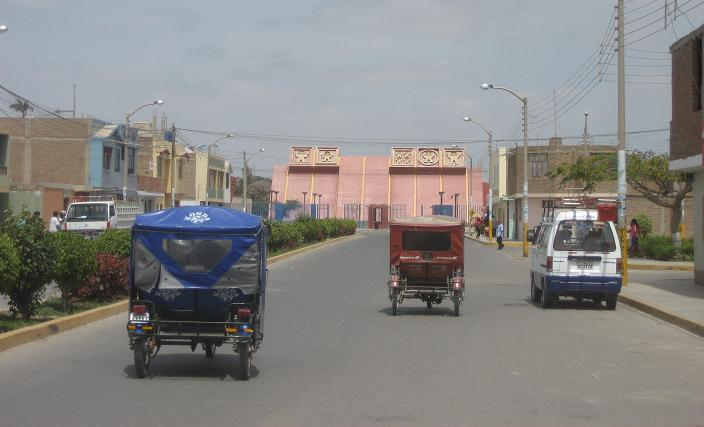 View of Lambayeque (Peru) and the museum "Tumbas Reales de Sipán".